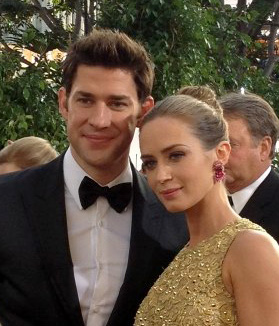 Husband and wife actors John Krasinski and Emily Blunt at the 2013 Golden Globe Awards